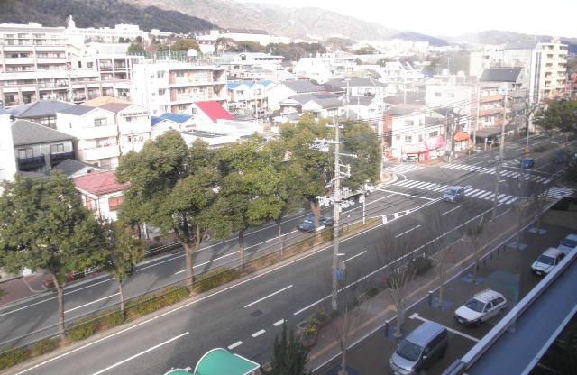 Kamitsutsuidori3 Chuo-ku Kobecity Hyogopref